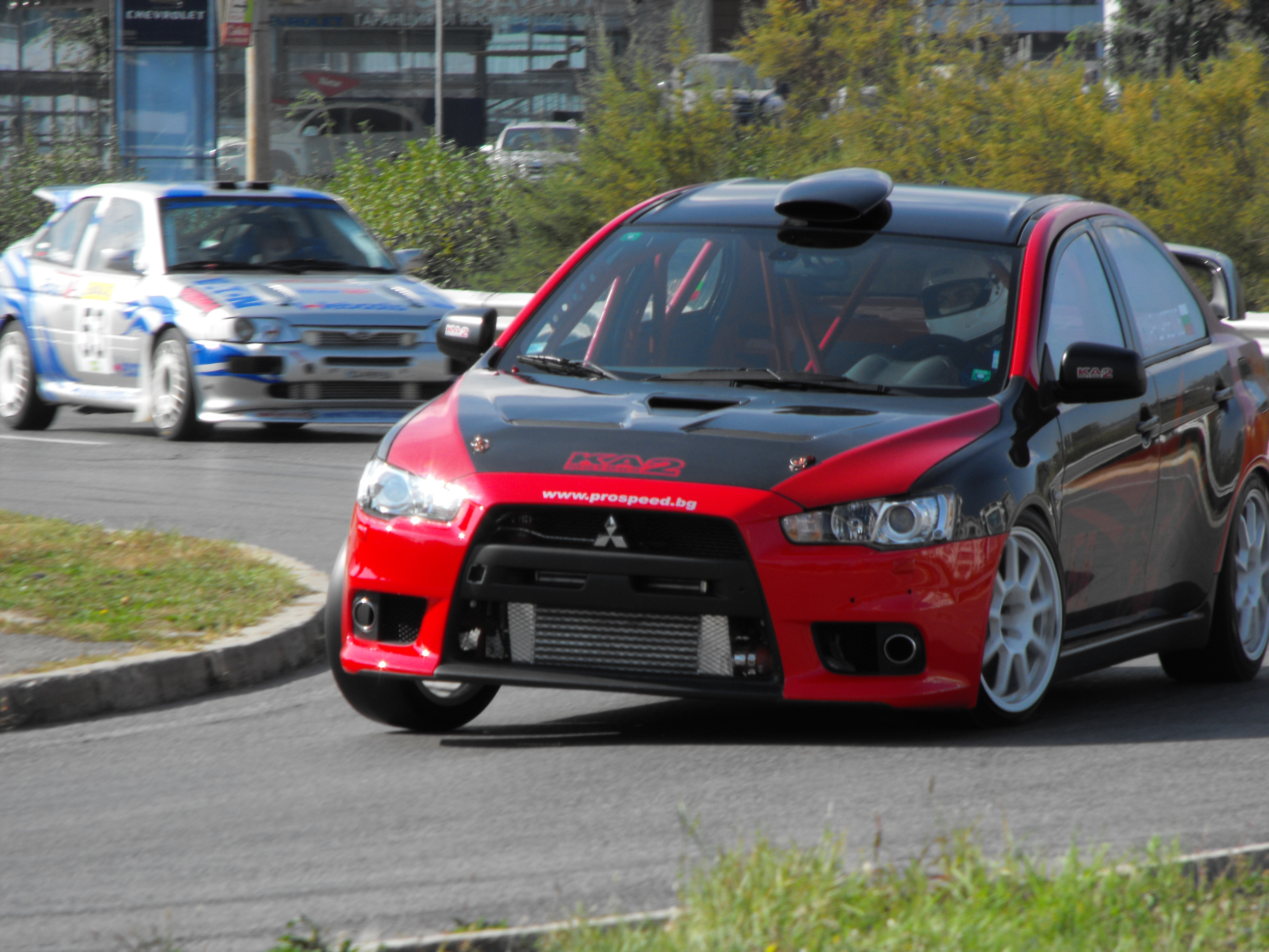 Kostantin Marshavelov - Bulgarian racecar driver